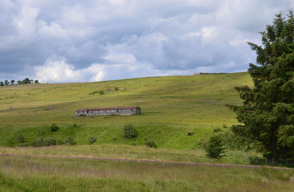 A wooden hut on the old camp site seen from the road below Barns. This is the last standing hut at Stobs Military Camp located just outside of Hawick in the Scottish Borders.